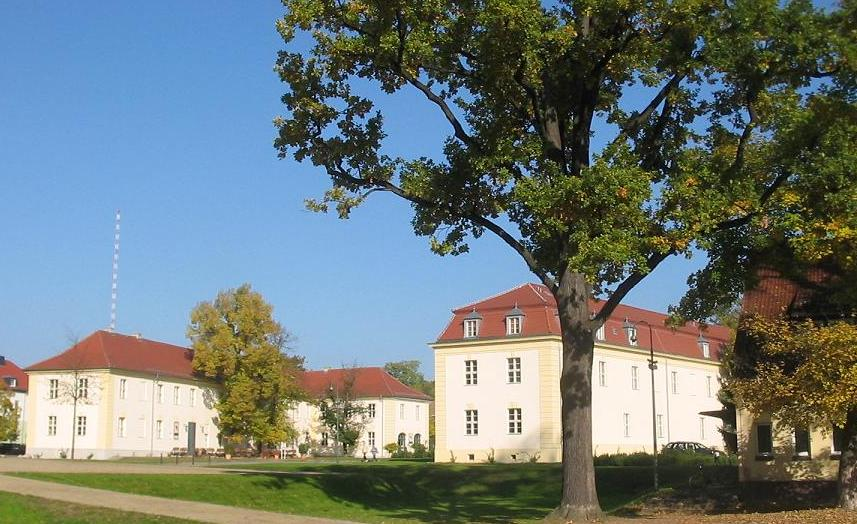 Kavaliershäuser (german for: buildings for the royal household) with castle’s courtyard of Schloss Königs Wusterhausen. The „Schloss“ is a renaissance-castle in Königs Wusterhausen, a town in the north of the district Dahme-Spreewald in Brandenburg, Germany. The castle was built in the 16th century and was used by Frederick William I of Prussia as hunting lodge.